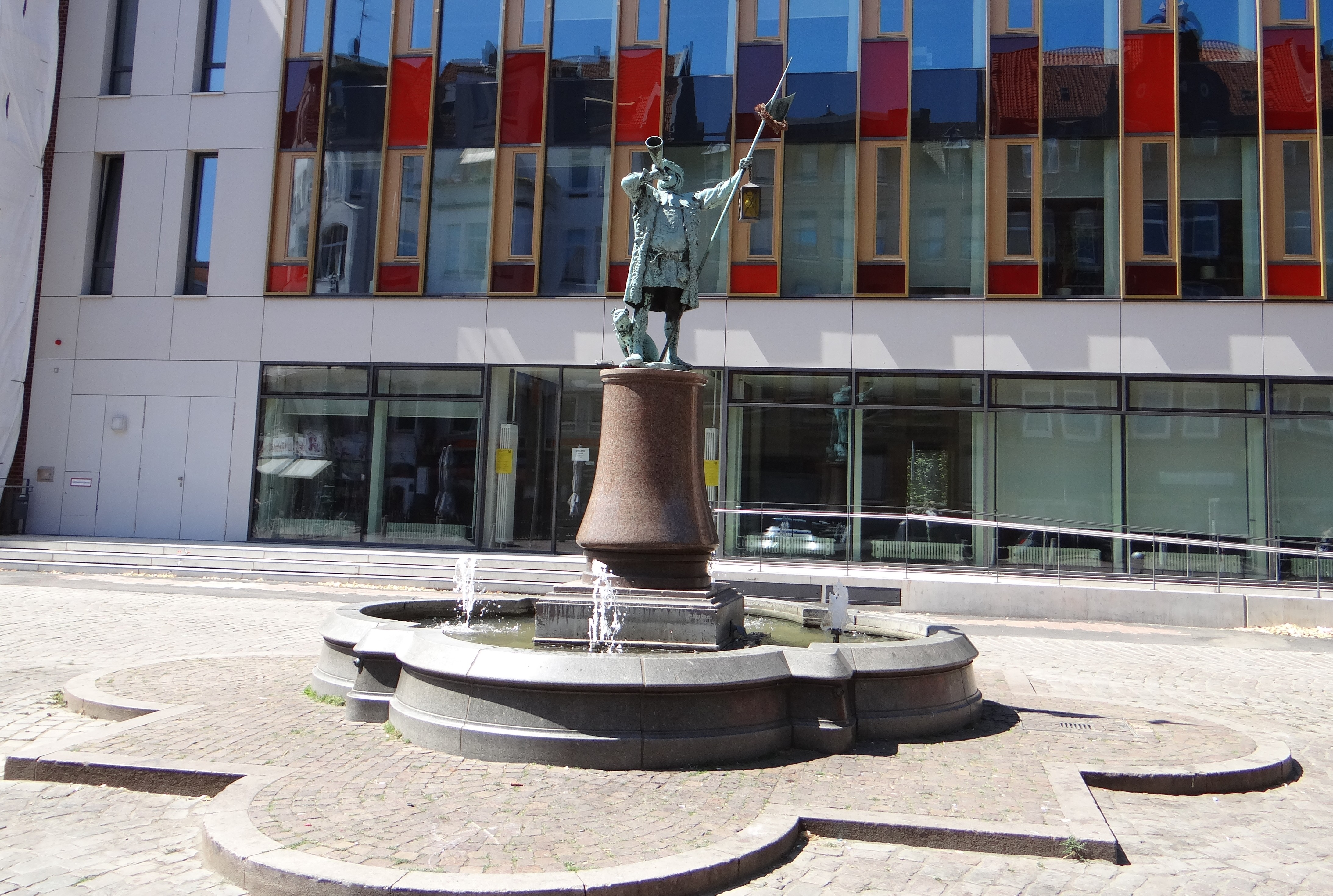 Fountain and sculpture in Hanover, Germany.